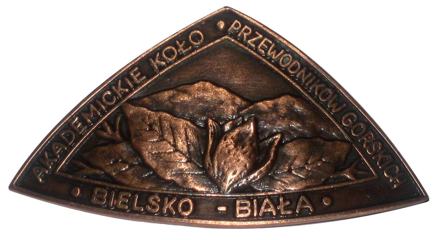 Badge of Akademickie Koło Przewodników Górskich in Bielsko-Biała